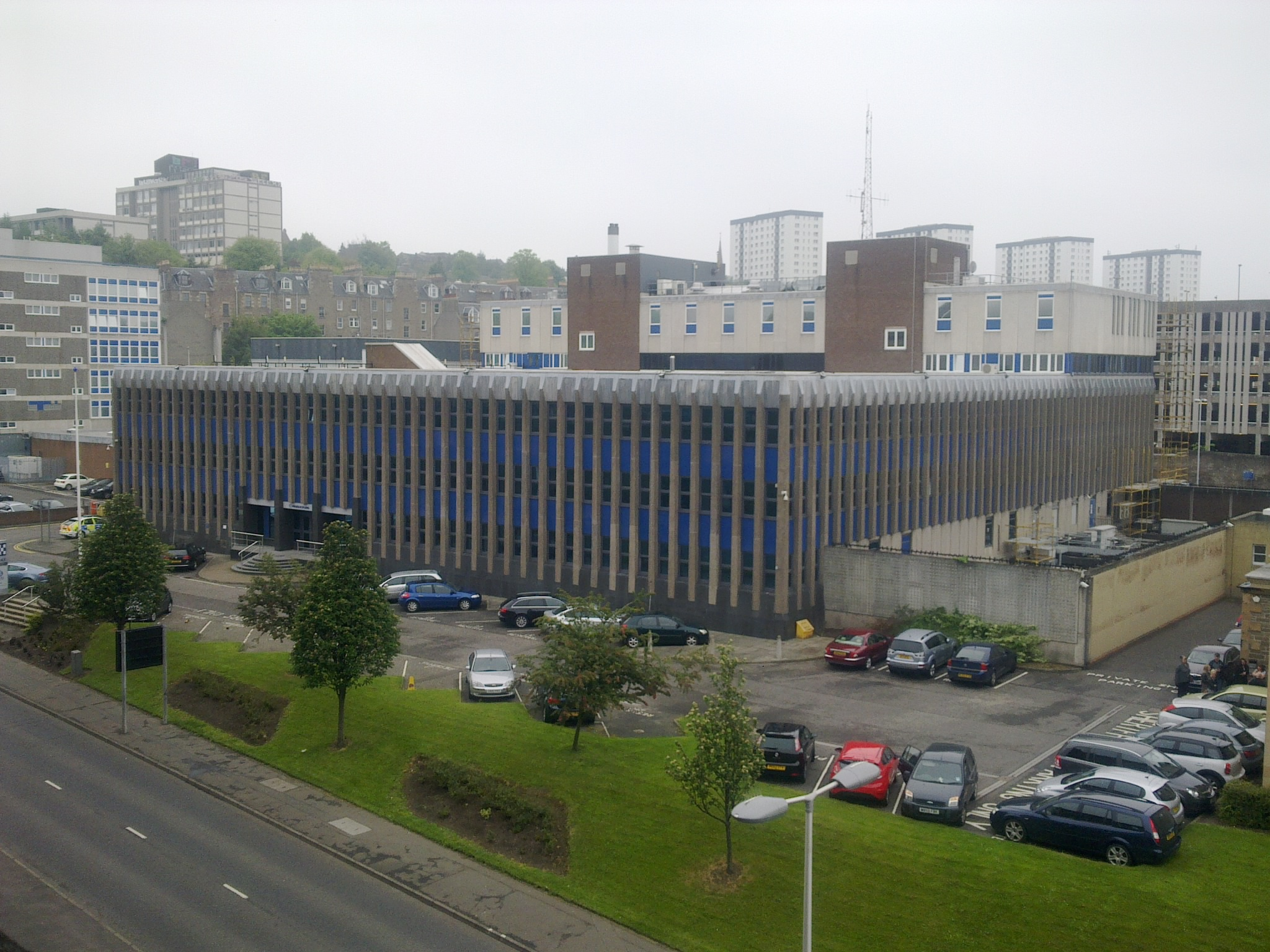 Photo taken on the completion of the exterior renovation of the new Police Scotland - Regional headquarters of Tayside, formerly the headquarters of Tayside Police Force one year previous. Still called 'Bell Street Police Station'.